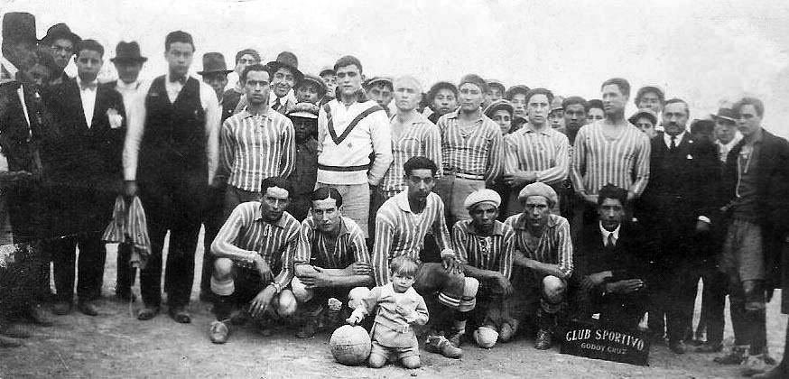 The Club Sportivo Godoy Cruz during a tour on San Juan Province, Argentina.